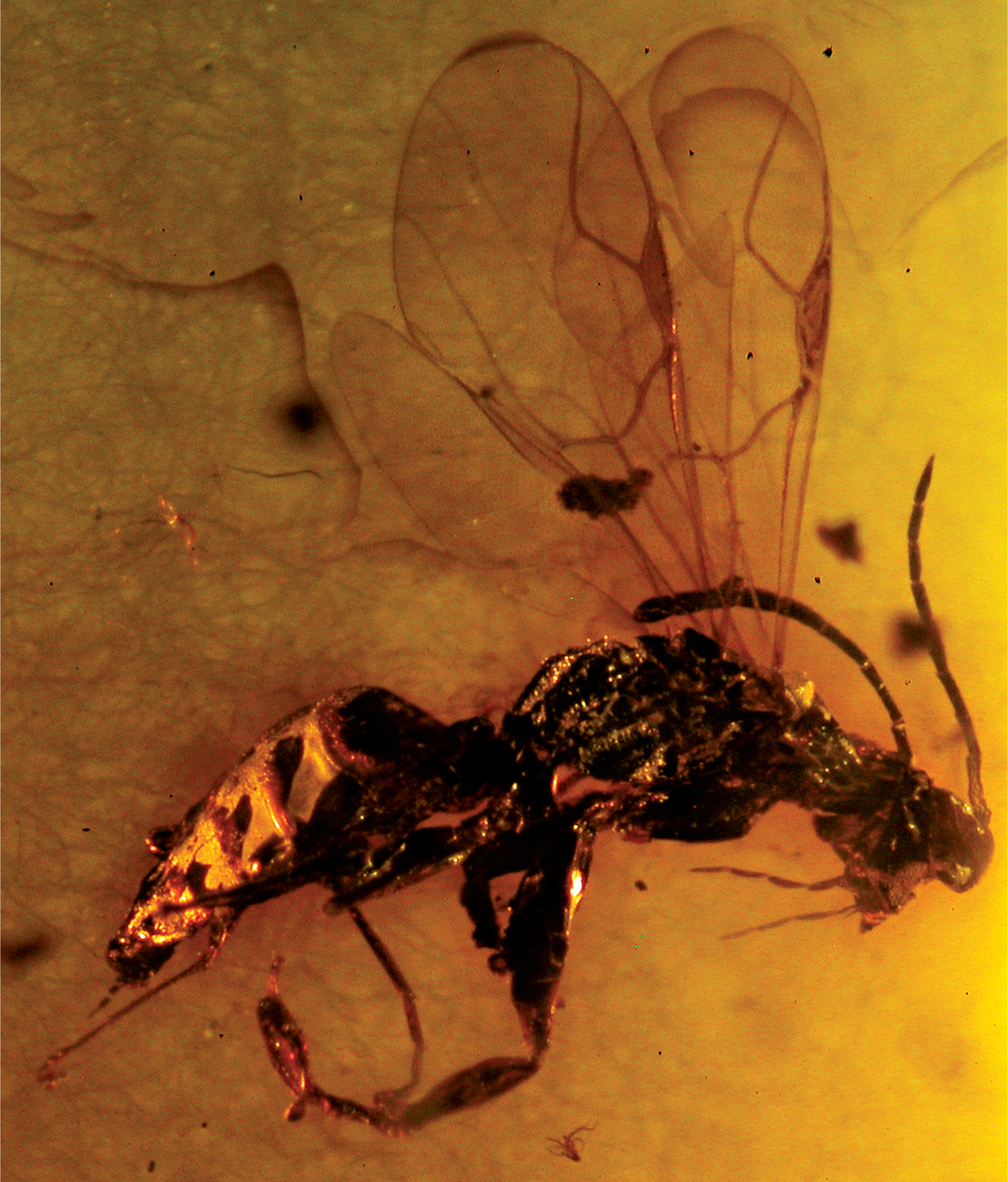 Deinodryinus velteni. Female holotype. Length 4.0 mm.